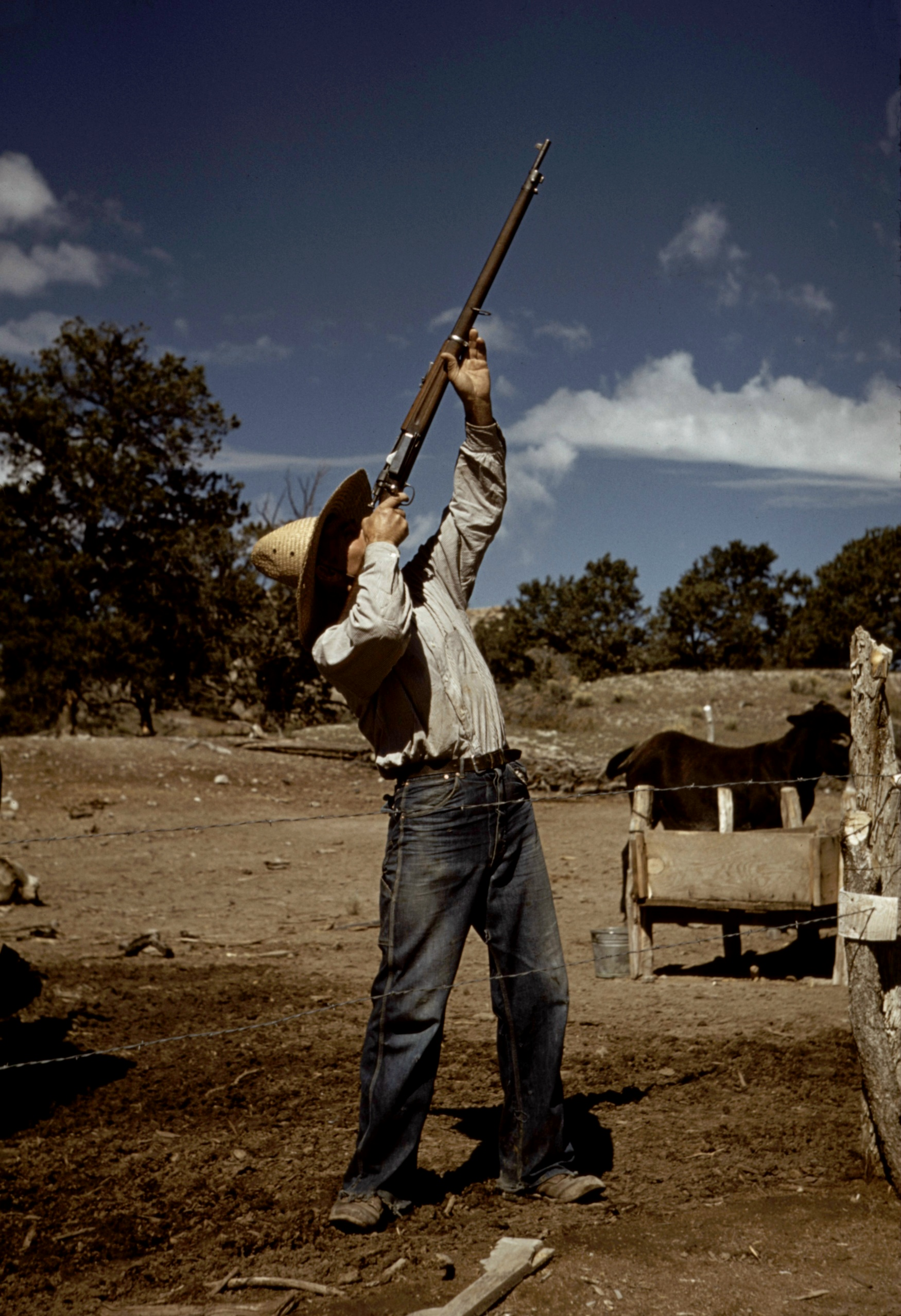 Mr. Leatherman, homesteader, shooting hawks which have been carrying away his chickens, Pie Town, New Mexico.